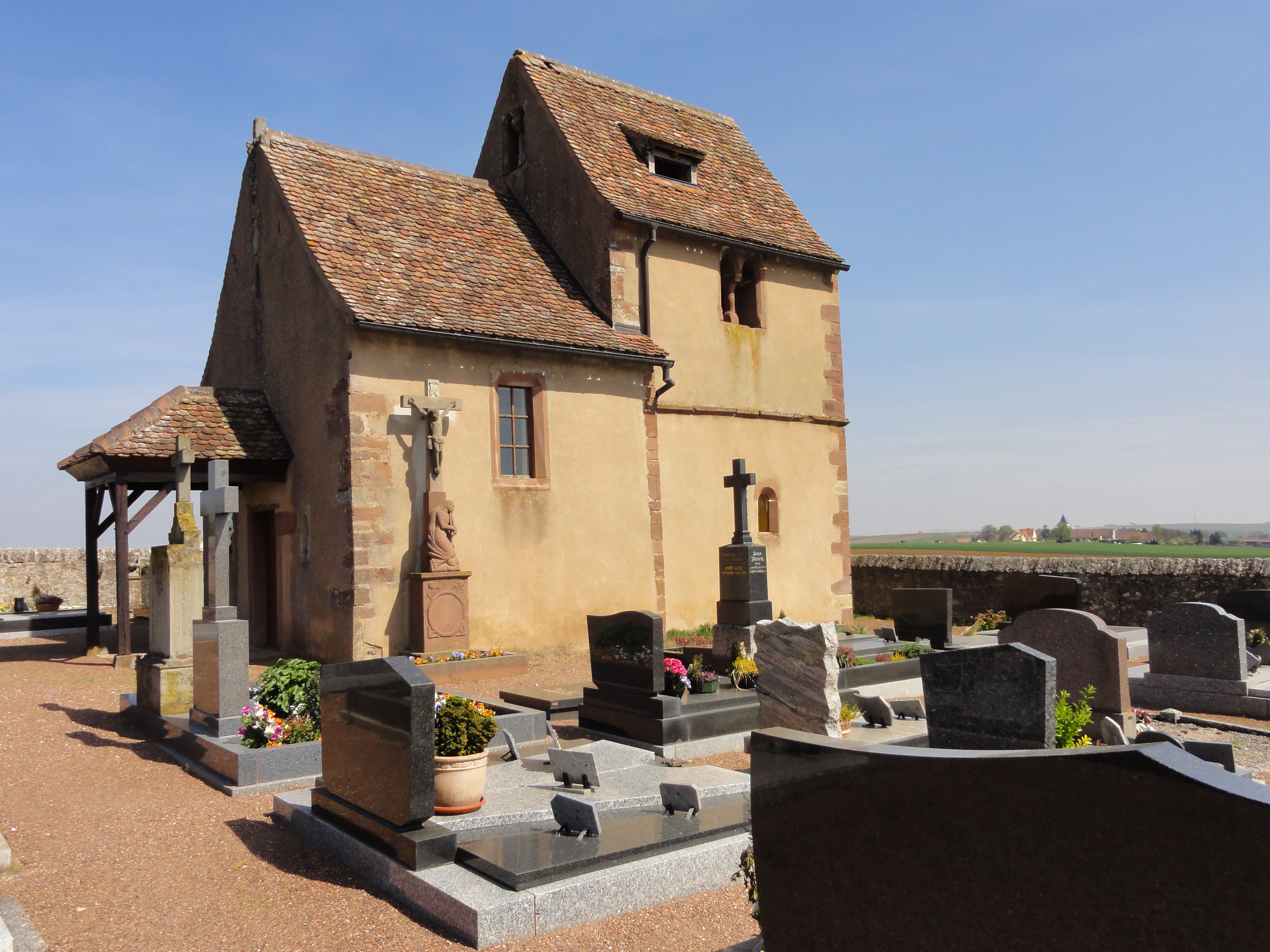 Alsace, Bas-Rhin, Kleingoeft, Église Saint-Alban, actuellement chapelle de cimetière de Betbur (XIIe-XVIIIe): It is indexed in the Base Mérimée, a database of architectural heritage maintained by the French Ministry of Culture, under the references PA00084758 and IA67007575.